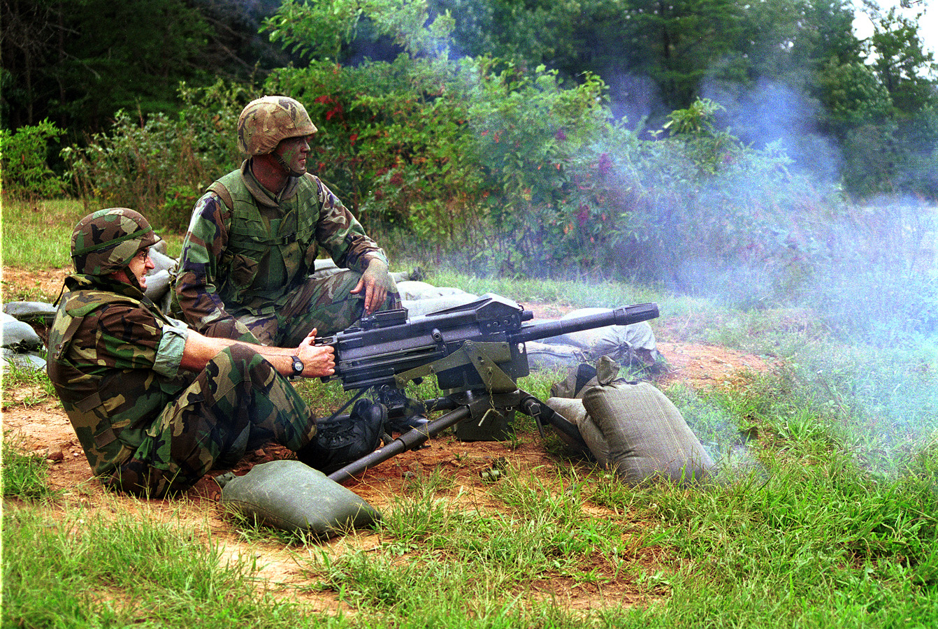 Richard Castanet (left) fires a Mark-19 automatic grenade launcher on Range 6 at Marine Corps Base Quantico in Virginia, on September 5, 2000. Castanet, who is from Richmond, Virginia, is the U.S. Marine winner of the Yahoo! Fantasy Careers in Today's Military Contest.